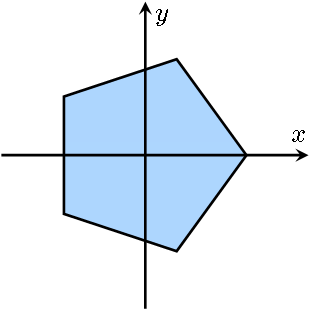 A pentagon in the x-y plane.